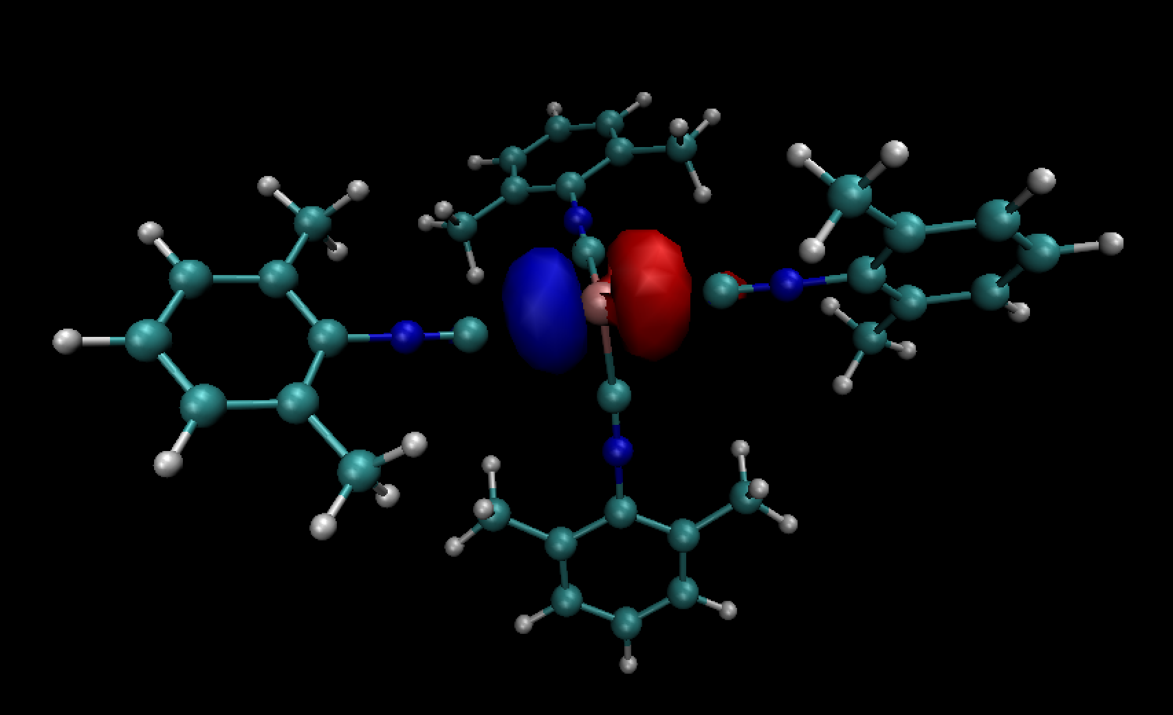 Visualization of the HOMO of a dicationic Ge(II) isocyanide complex reported in